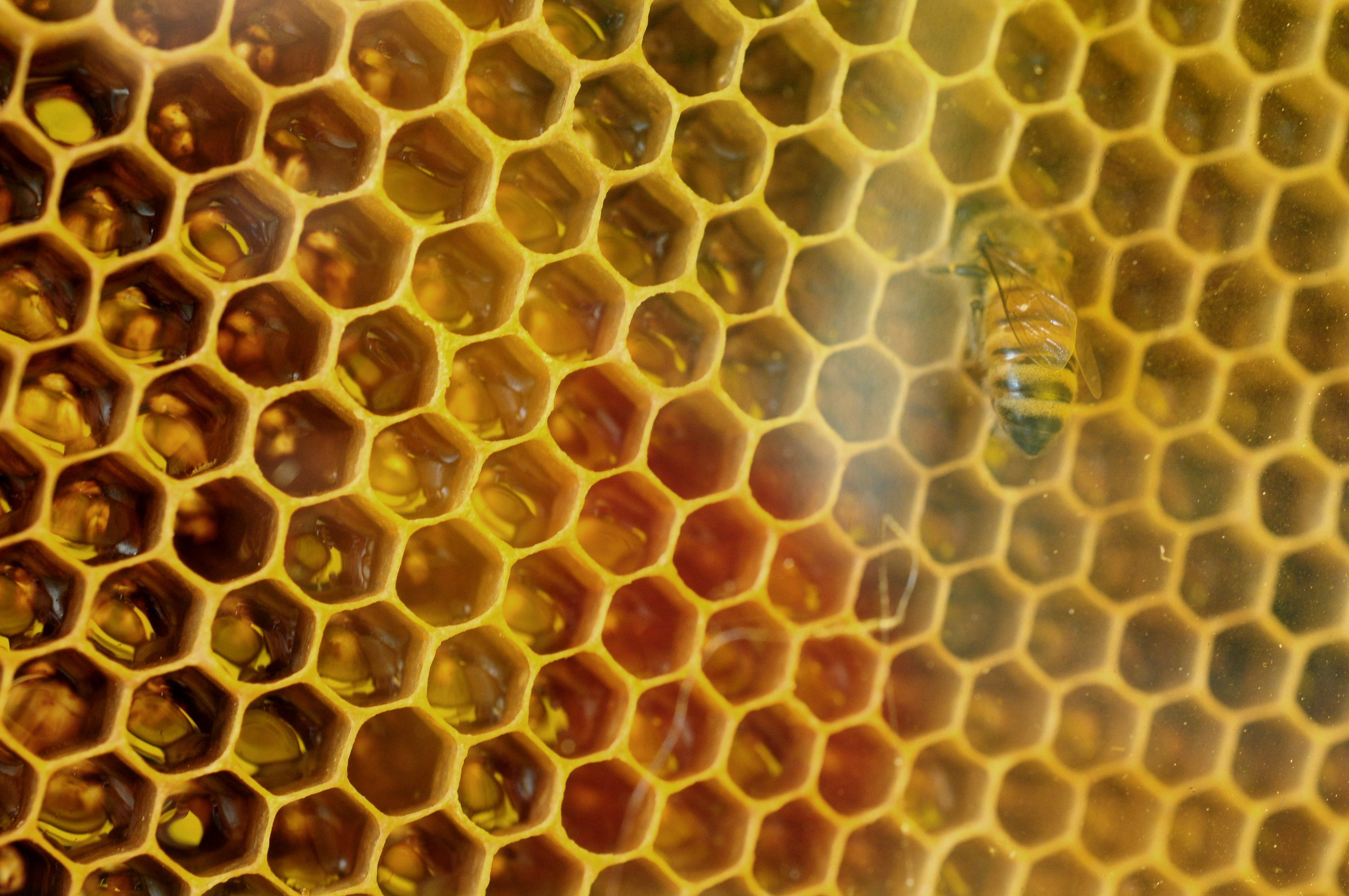 see title